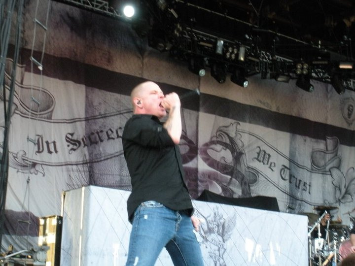 Corey Taylor performing at Rockstar Uproar Festival in Council Bluffs, IA